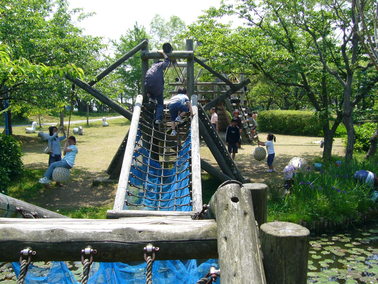 Playground at the Suigo Sawara Ayame Park in Katori City, Chiba Prefecture, Japan